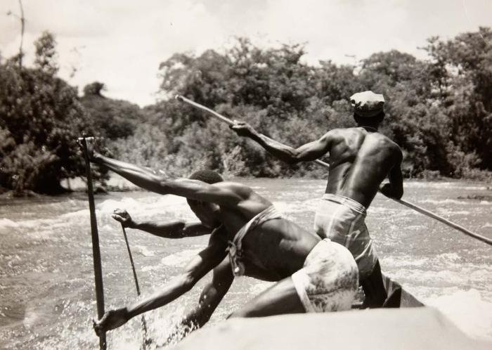 Rowing Maroons on a river in Suriname